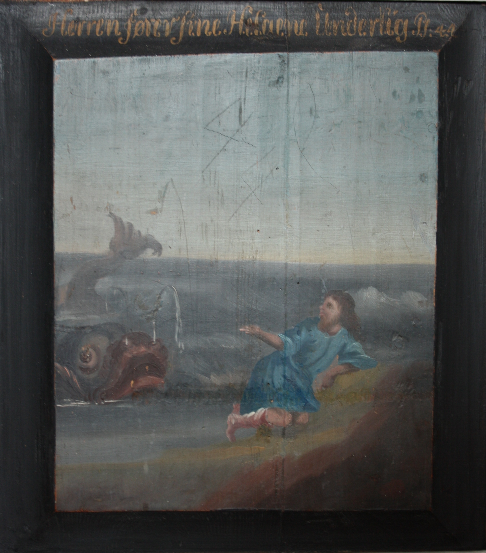 Allegoric painting by Mogens Christian Thrane in Sortebrødre Church, Viborg, Denmark. Text: The Lord has set apart the godly for himself.(Psalm. 4,3)